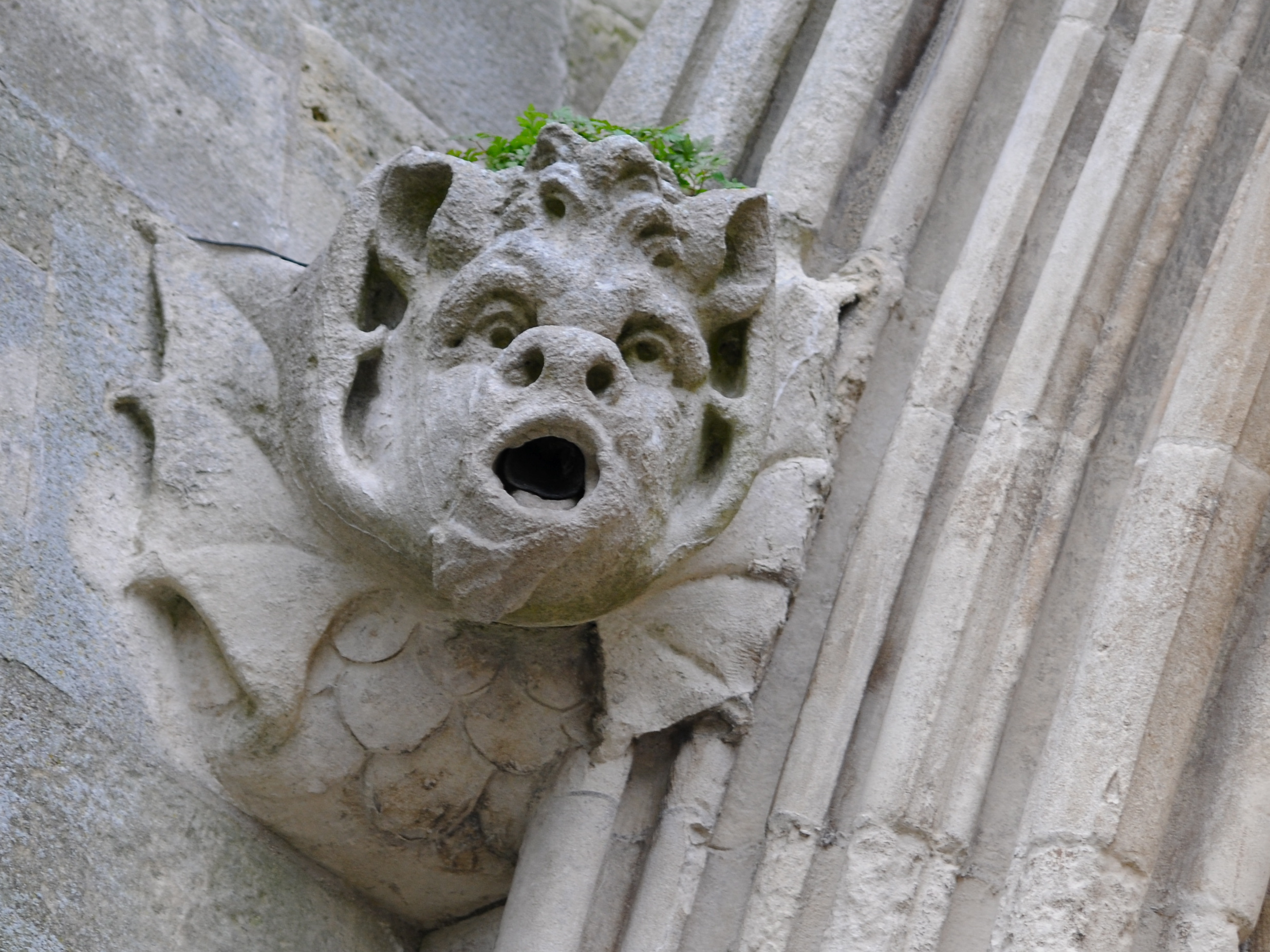 Gargoyle on west front at Salisbury Cathedral.